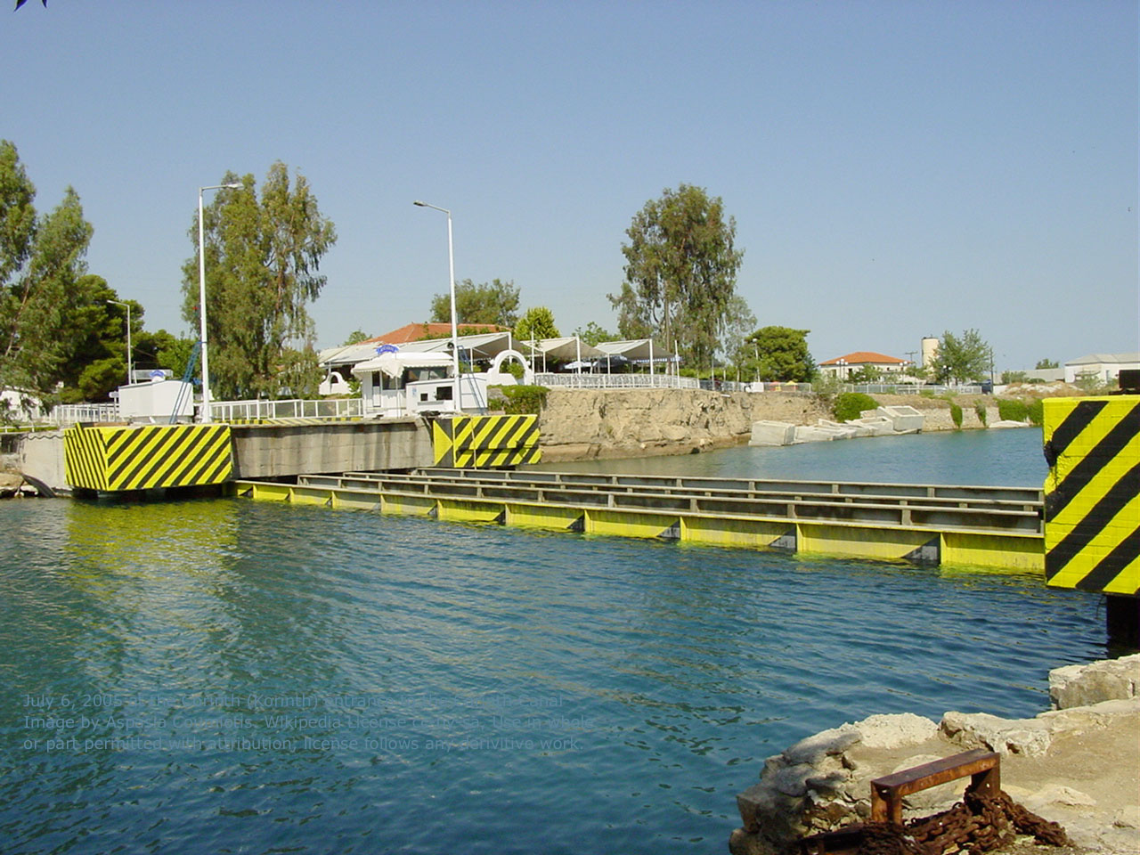 The submersible bridge at Isthmia, at the south-eastern end of the Corinth Canal